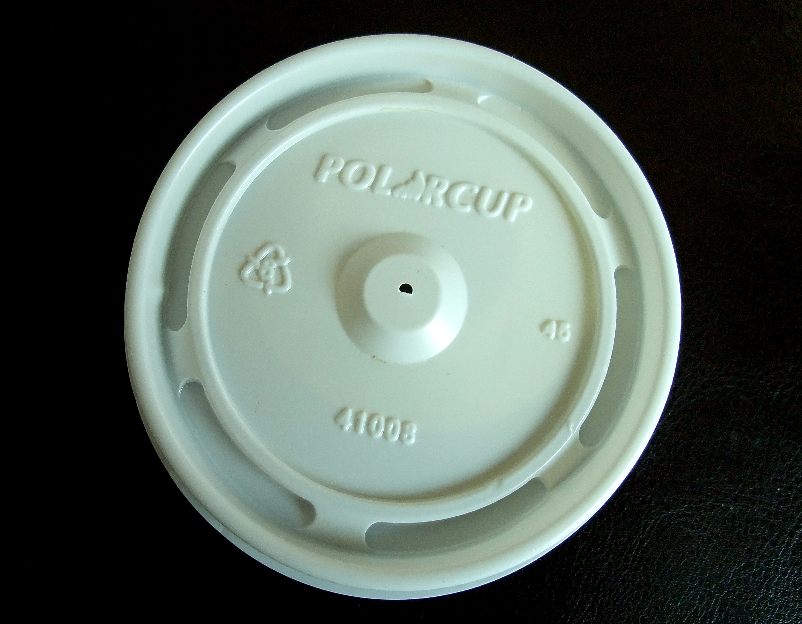 A disposal cup lid made of polystyrene